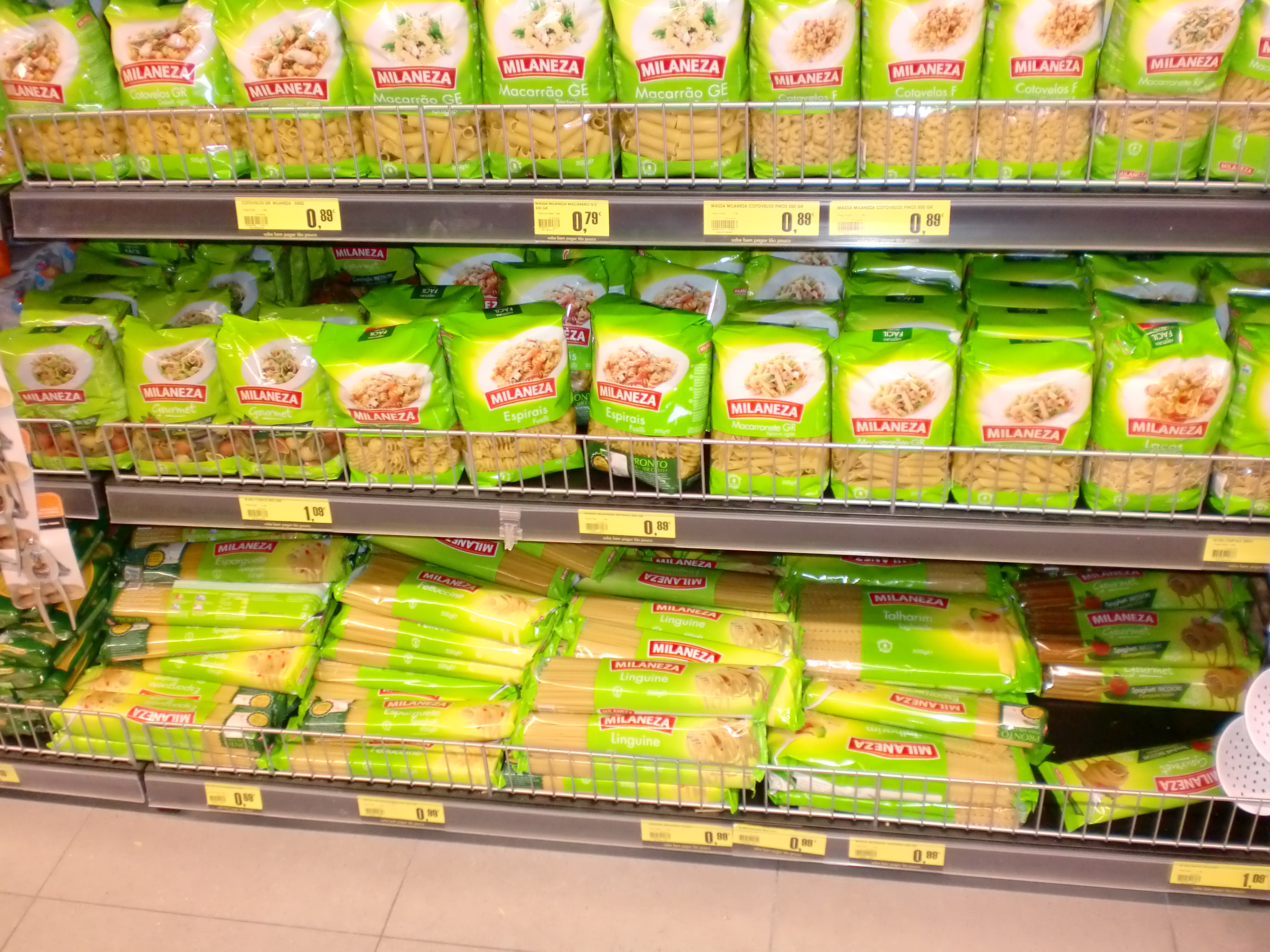 Milaneza pastas (Cerealis group). Photo taken at a Pingo Doce supermarket, in Coimbra.